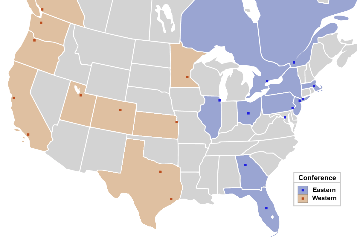 Major League Soccer club locations 2017.